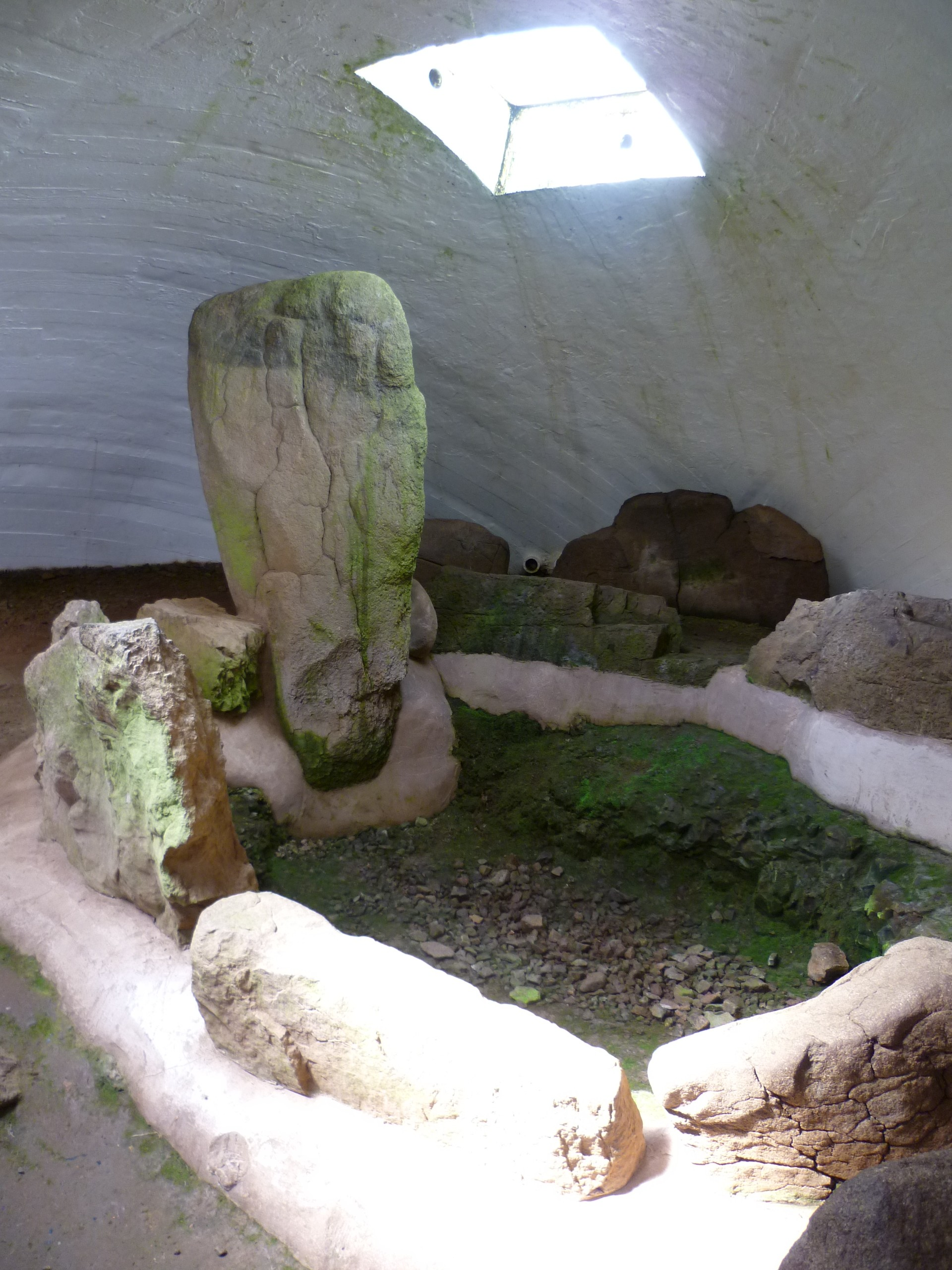 Bronze Age burial cist, Cairnpapple, West Lothian